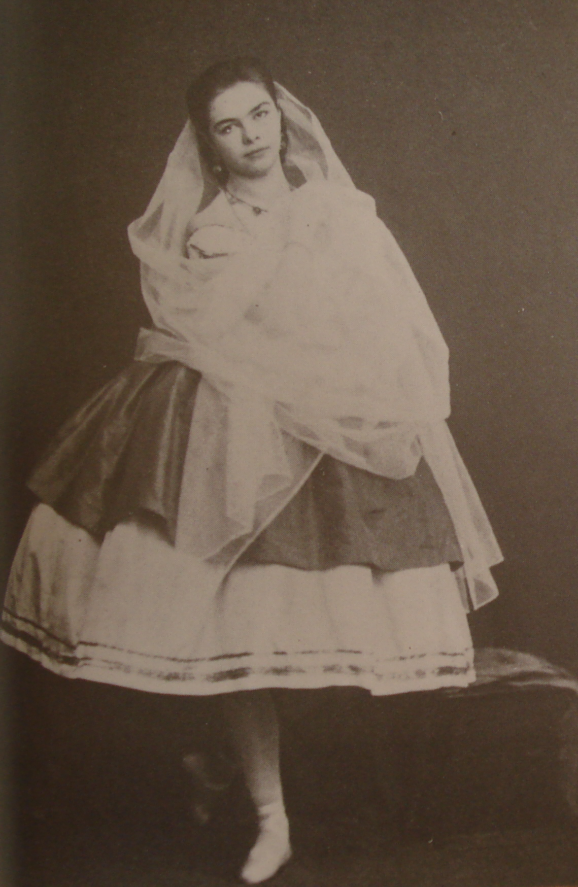 Catherine Chislova, c. 1865 source : Jacques Ferrand collection